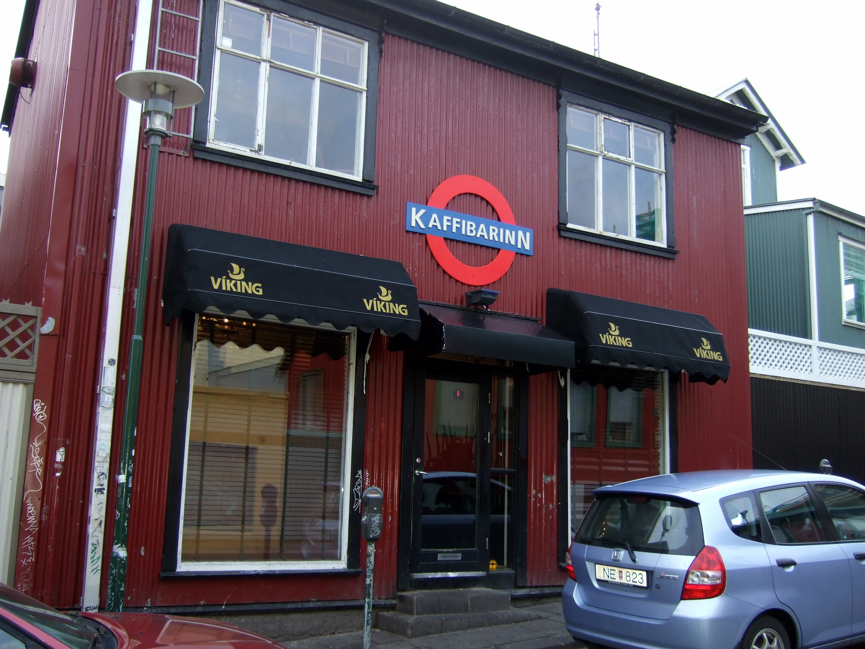 Kaffibarinn in Reykjavik From Flickr: A bar in Reykjavik. Turns out that it's the trendiest. Blur's Damon Albarn part-owns it. Didn't go in.